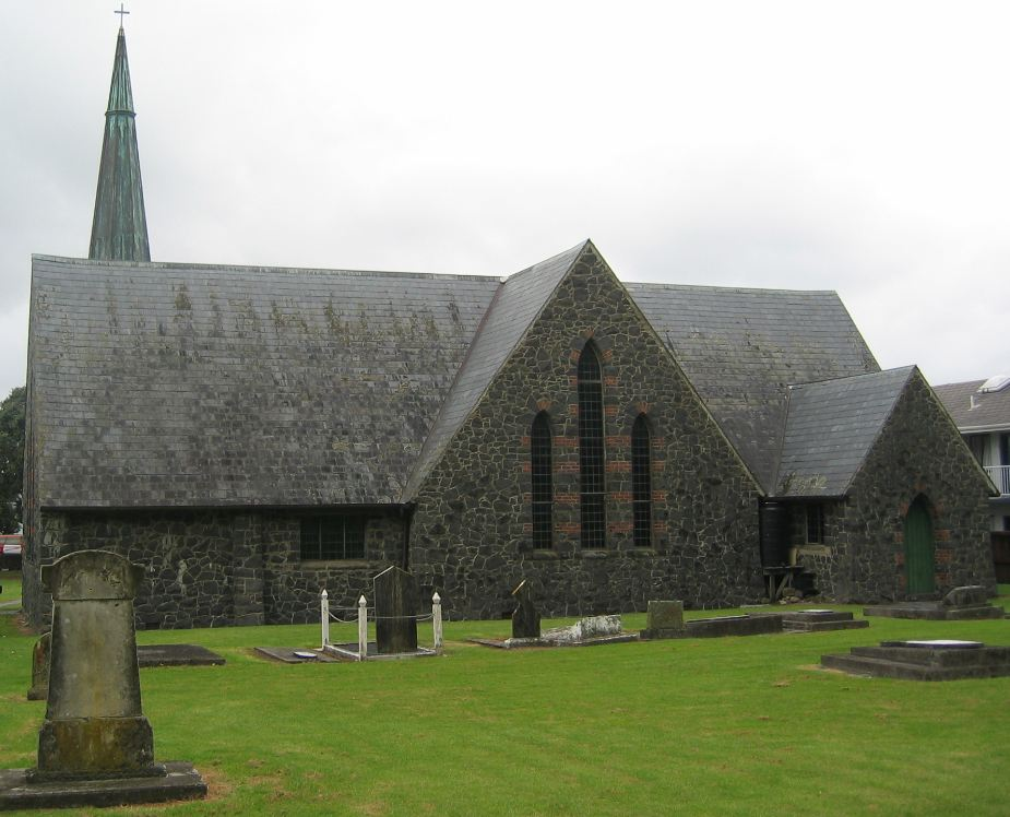 Church of Pahia